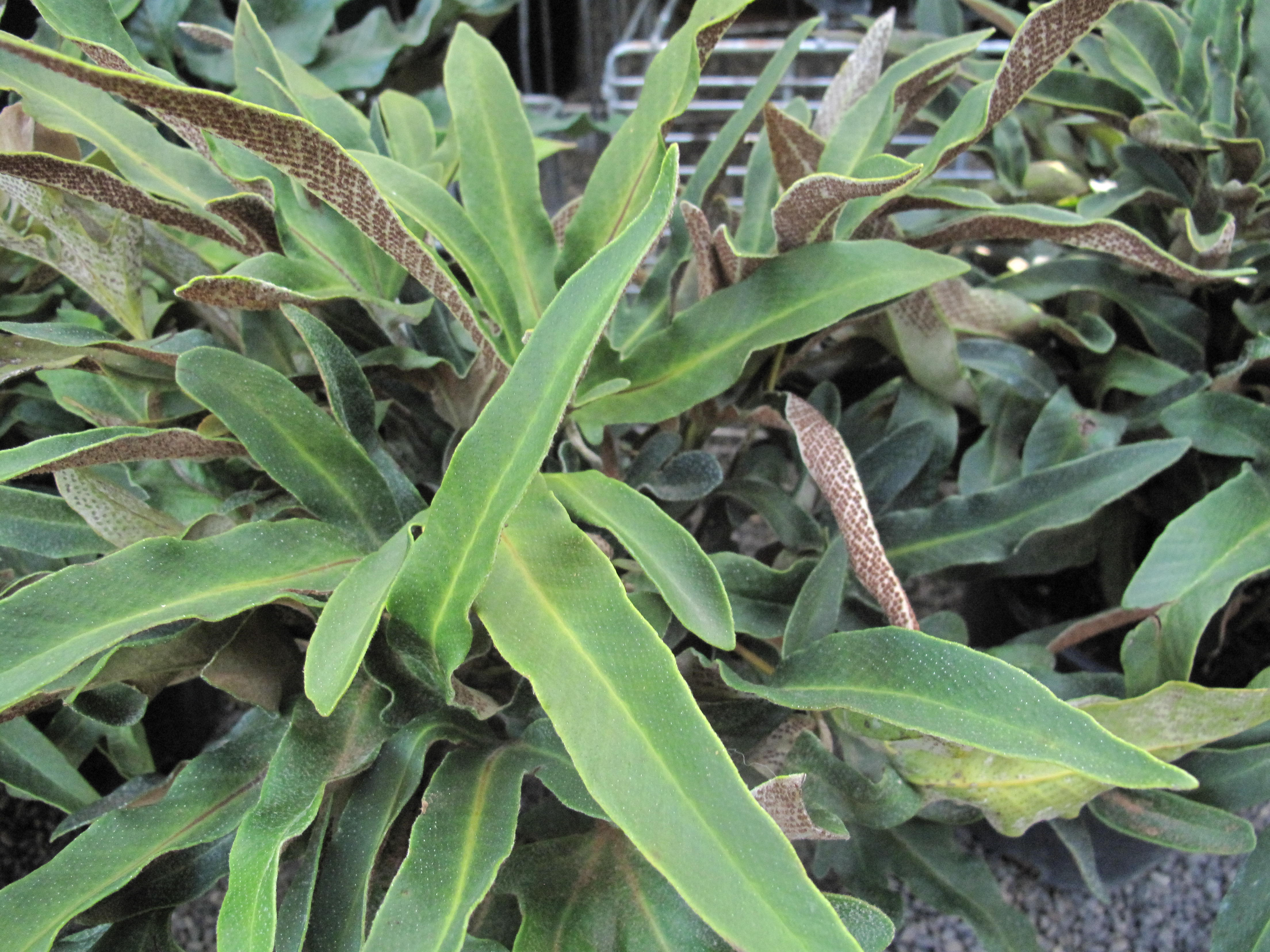 Pyrrosia hastata (felt fern)